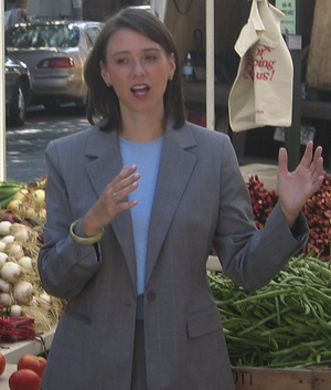 New York City Council Jessica Lappin at the 82nd St. Greenmarket Opening. Photo courtesy of Damek via Flickr. This file has been extracted from another file: Jessica Lappin 2006.jpg